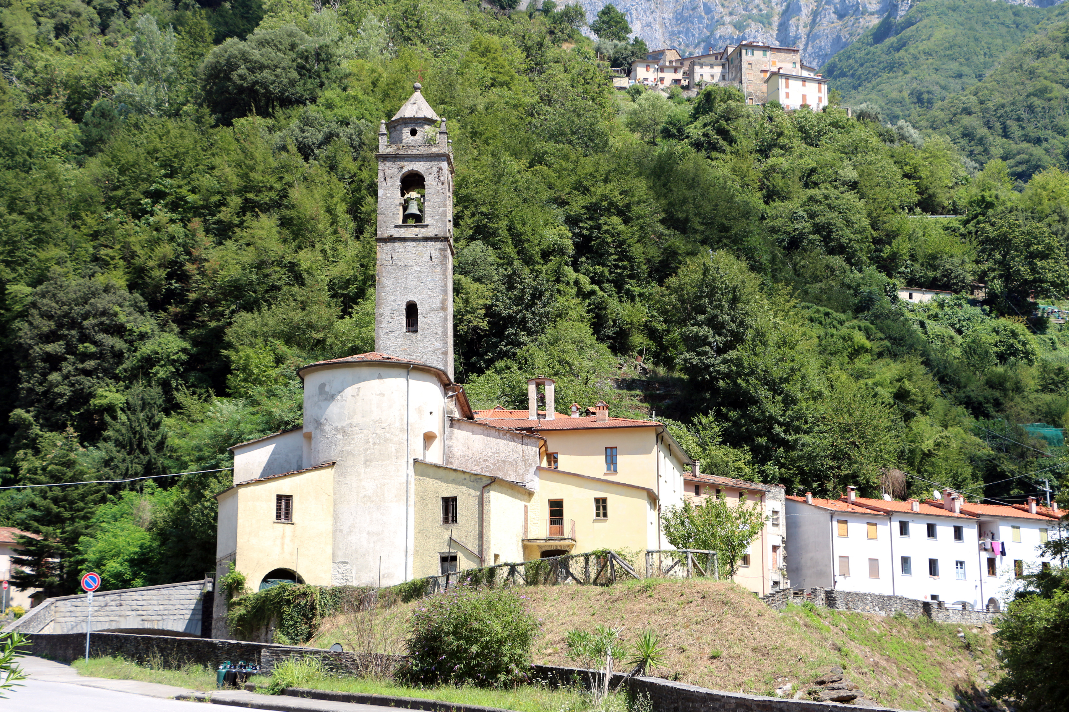 Cardoso (Stazzema)